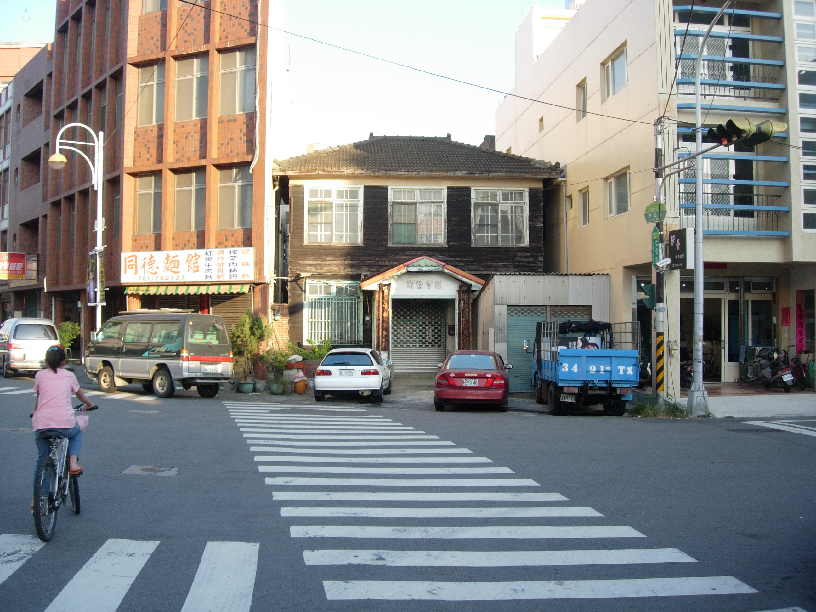 Tungshiau Town wooden Clinic